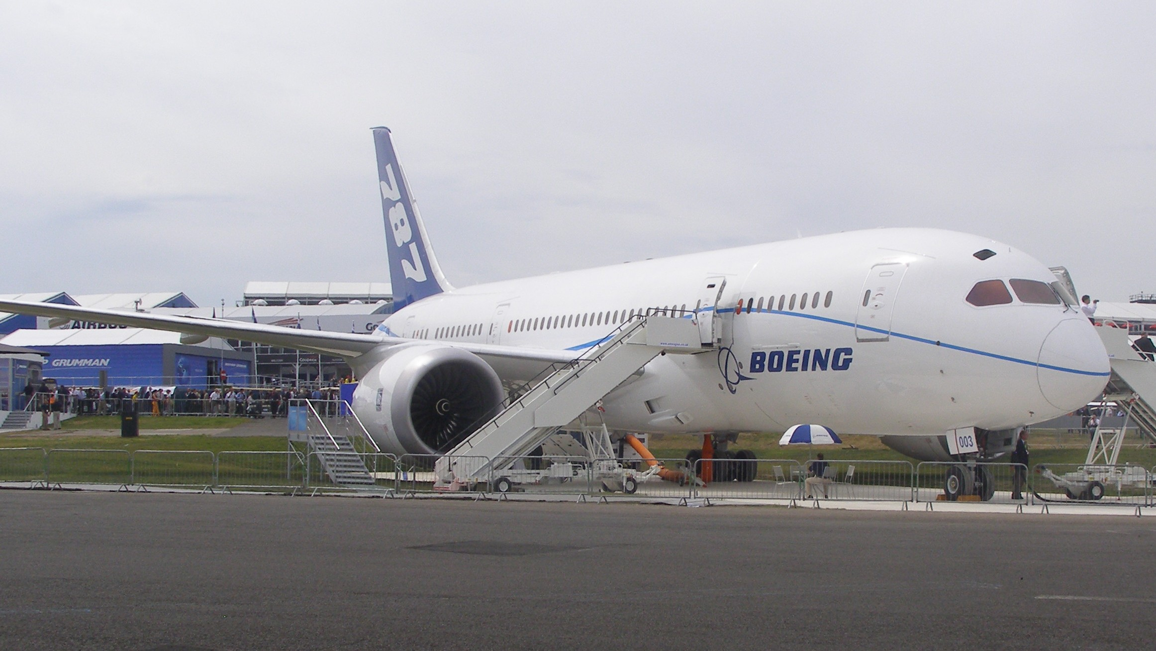 N787BX the third prototype Boeing 787 at the 2010 Farnborough Airshow.